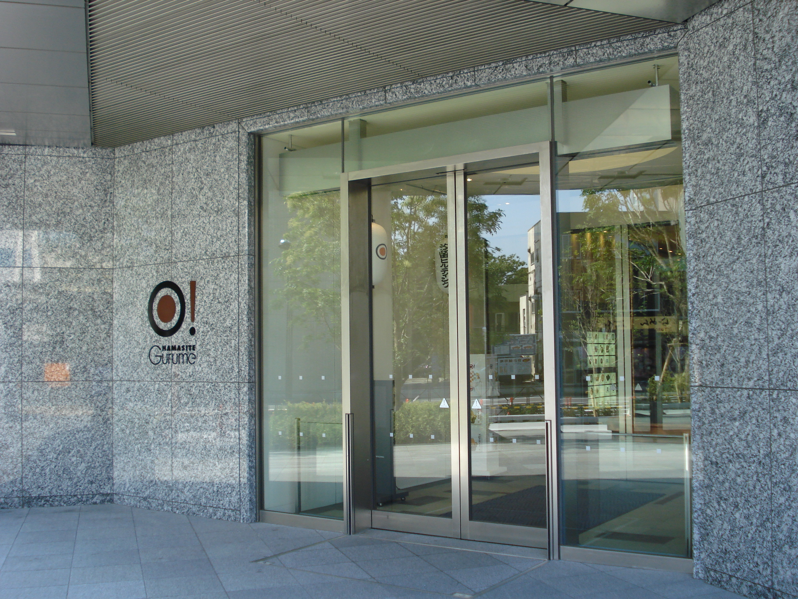 Building